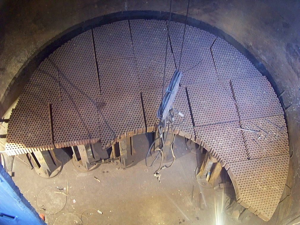 Cast-iron grid colomns and grid of Cowper stove.